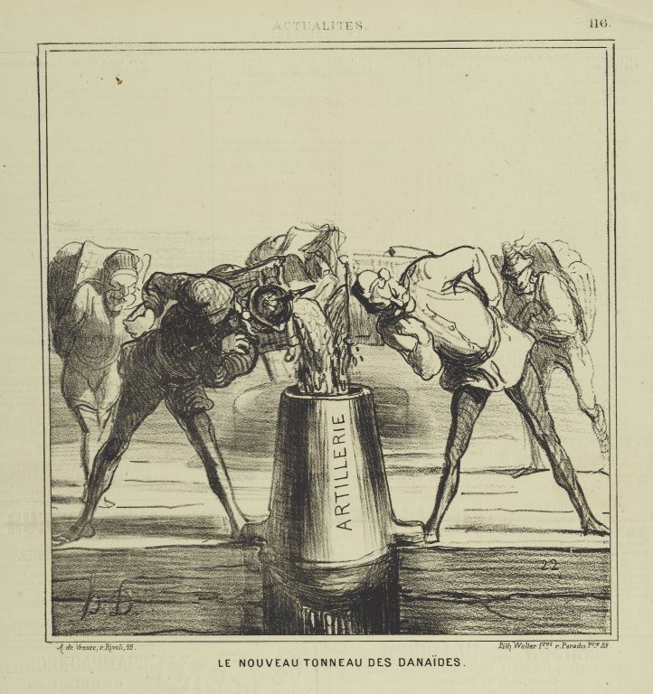 Part of the series Actualités, no. 116.